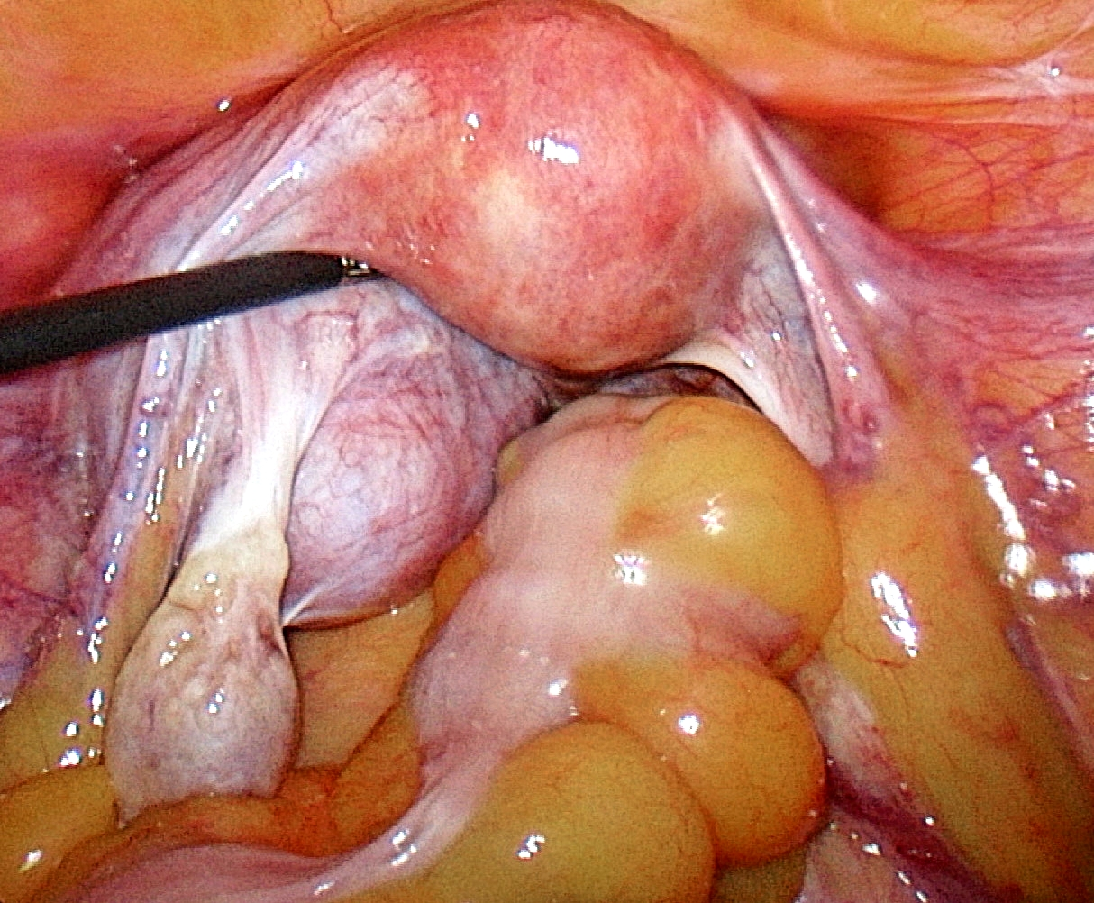 large fibroid of the left broad ligament